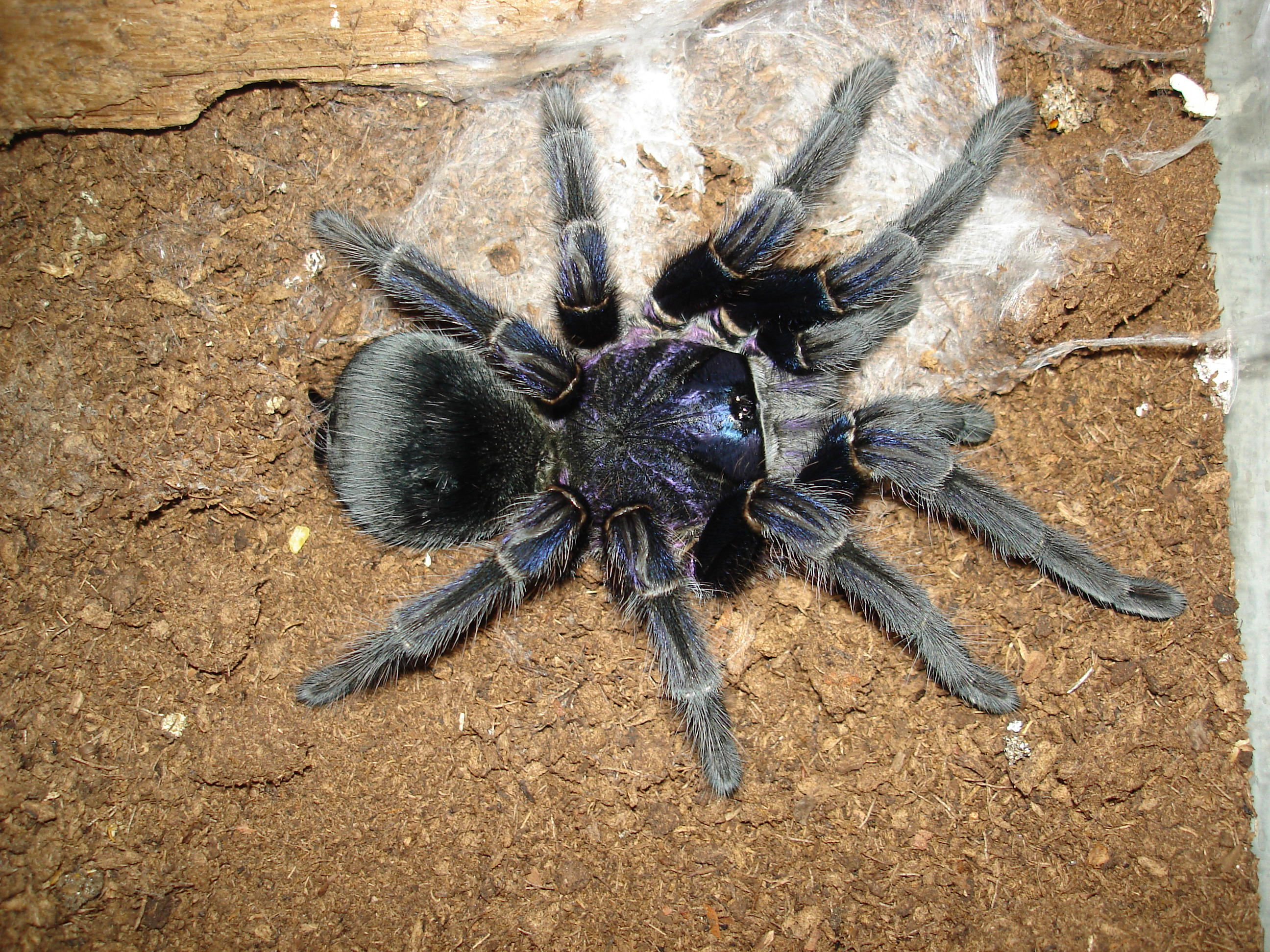 Phormictopus cancerides cancerides, adult female